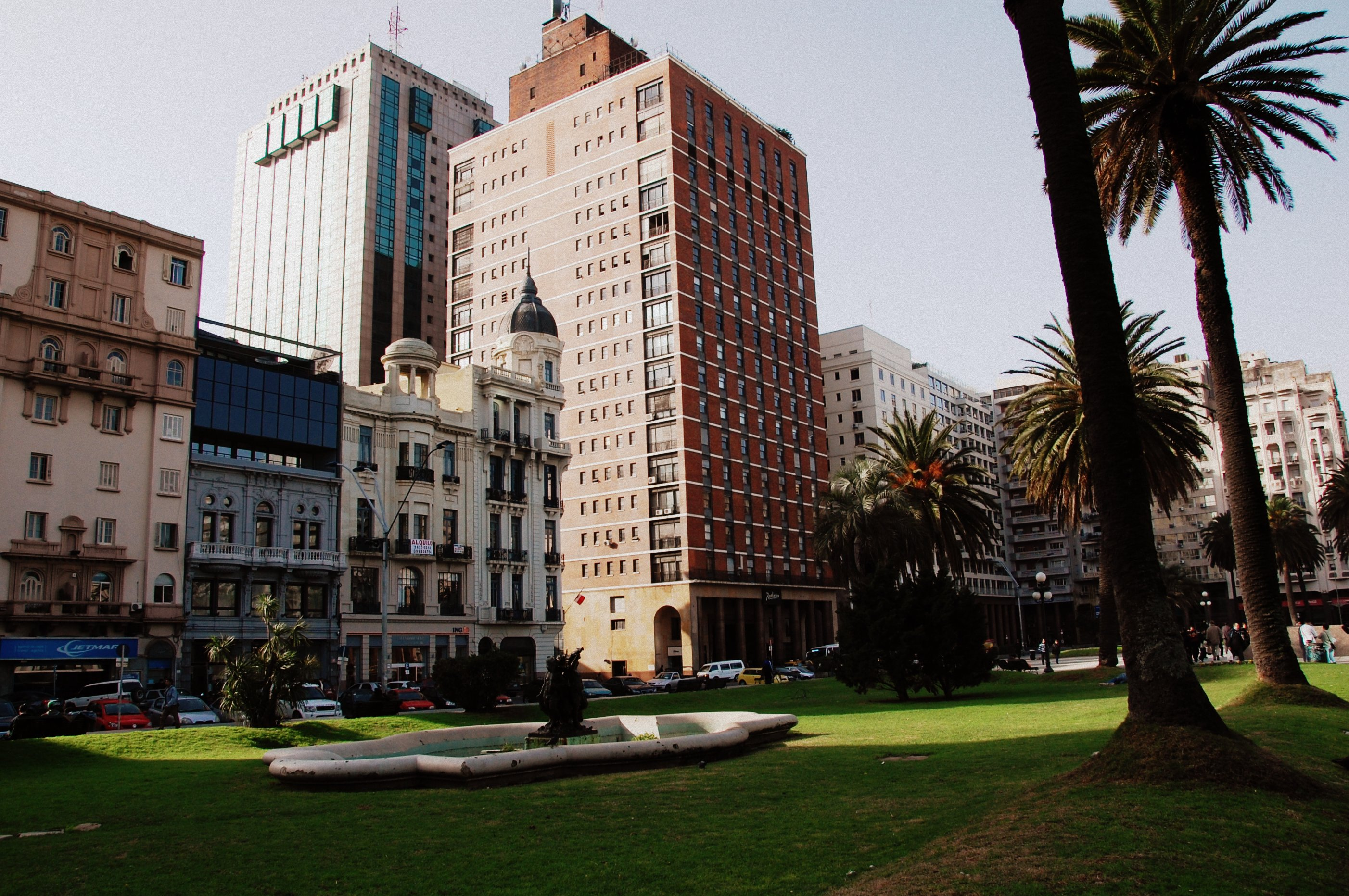 Square in downtown Montevideo, Uruguay